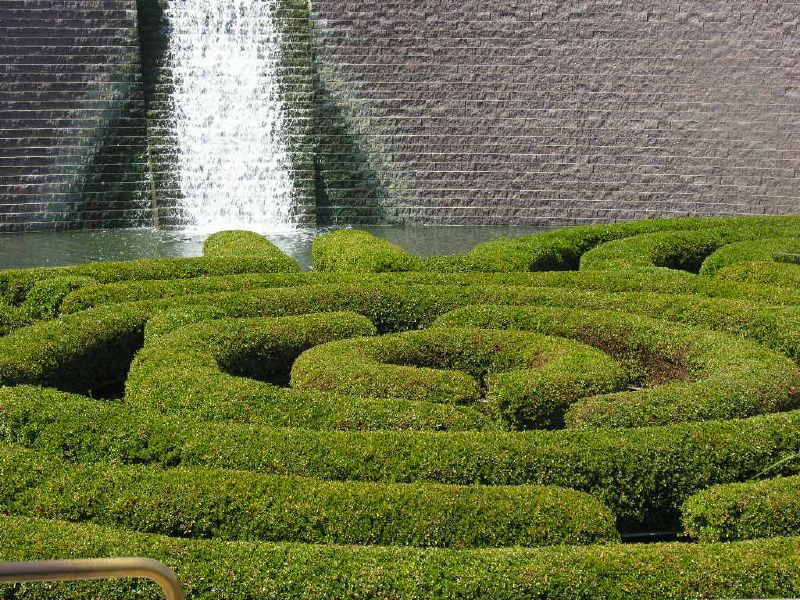 Hedge maze and waterfall in the lower Central Garden, Getty Center, Los Angeles, California.